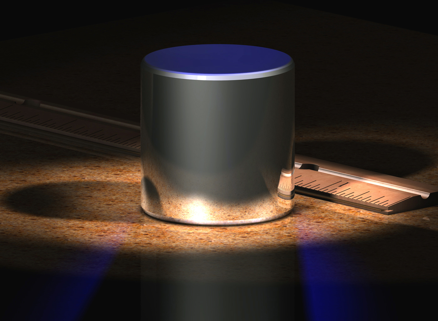 A computer-generated image of the International Prototype kilogram (IPK), which is made from an alloy of 90% platinum and 10% iridium (by weight) and machined into a right-circular cylinder (height = diameter) of 39.17 mm. The IPK is kept at the Bureau International des Poids et Mesures (International Bureau of Weights and Measures) in Sèvres on the outskirts of Paris. The geometry of this computer model was based on the actual specifications being used for experiments in new manufacturing techniques to produce new kilogram mass standards. Solid model and ray-traced image was created using Cobalt CAD software. This image was provided by the contributor because of the dearth of uncopyrighted photographs of the actual IPK. This is expected to be a chronic limitation given that… the IPK is stored in a vault nearly all the time, there is no general public access to the BIPM (and certainly none to the vault), and working copies of the IPK are used at the BIPM for routine calibrations for years on-end.